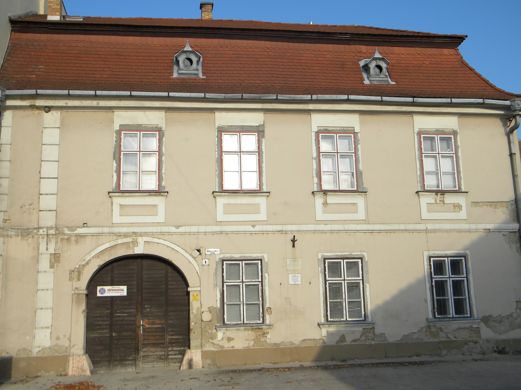 Location: Hungary, Tata This is a photo of a monument in Hungary, Identifier: 6407